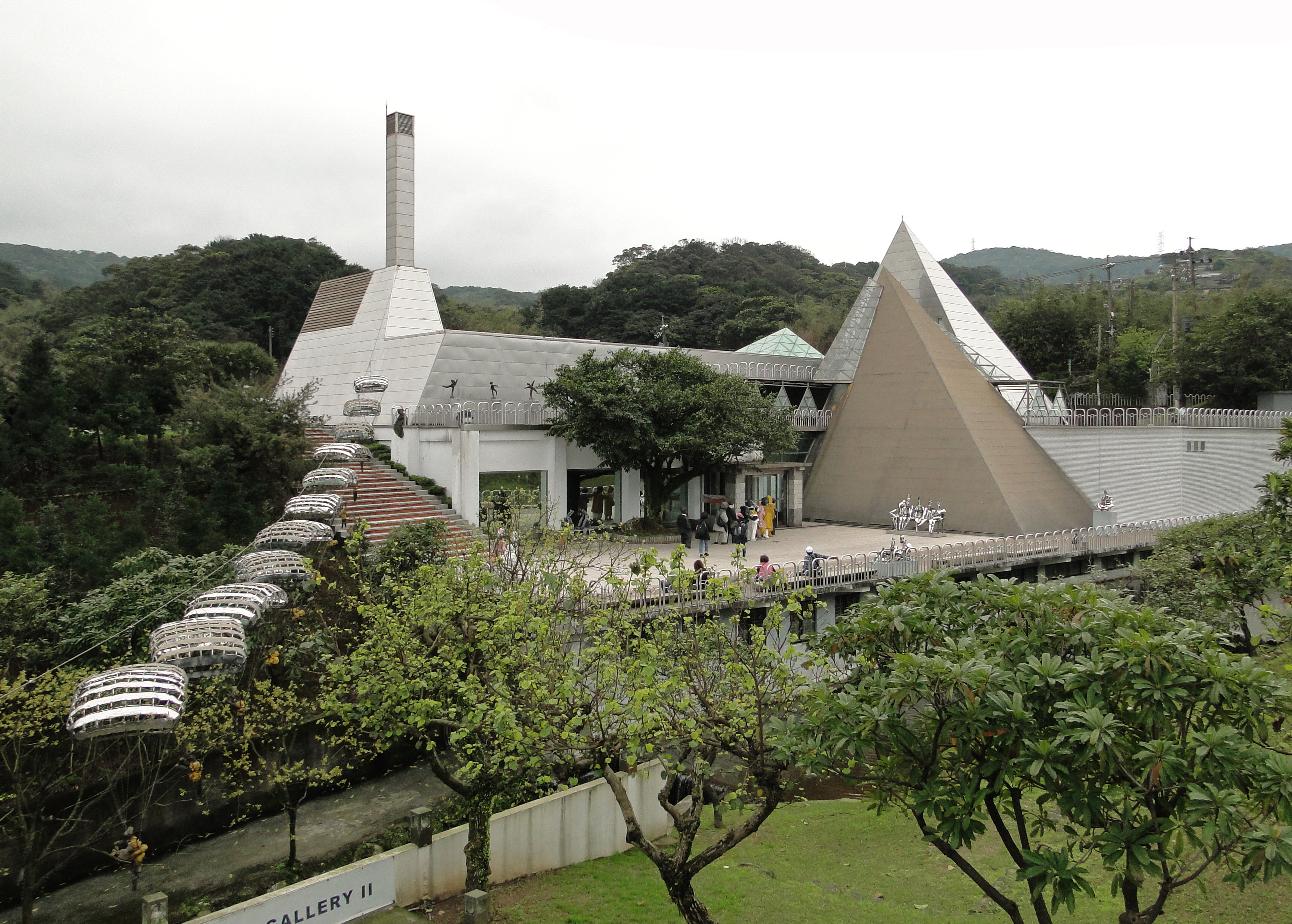 Main building of Gallery II in Juming Museum, Taiwan